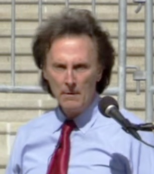 American author and talk radio host Gary Null speaking out against mandatory vaccination in New York City.